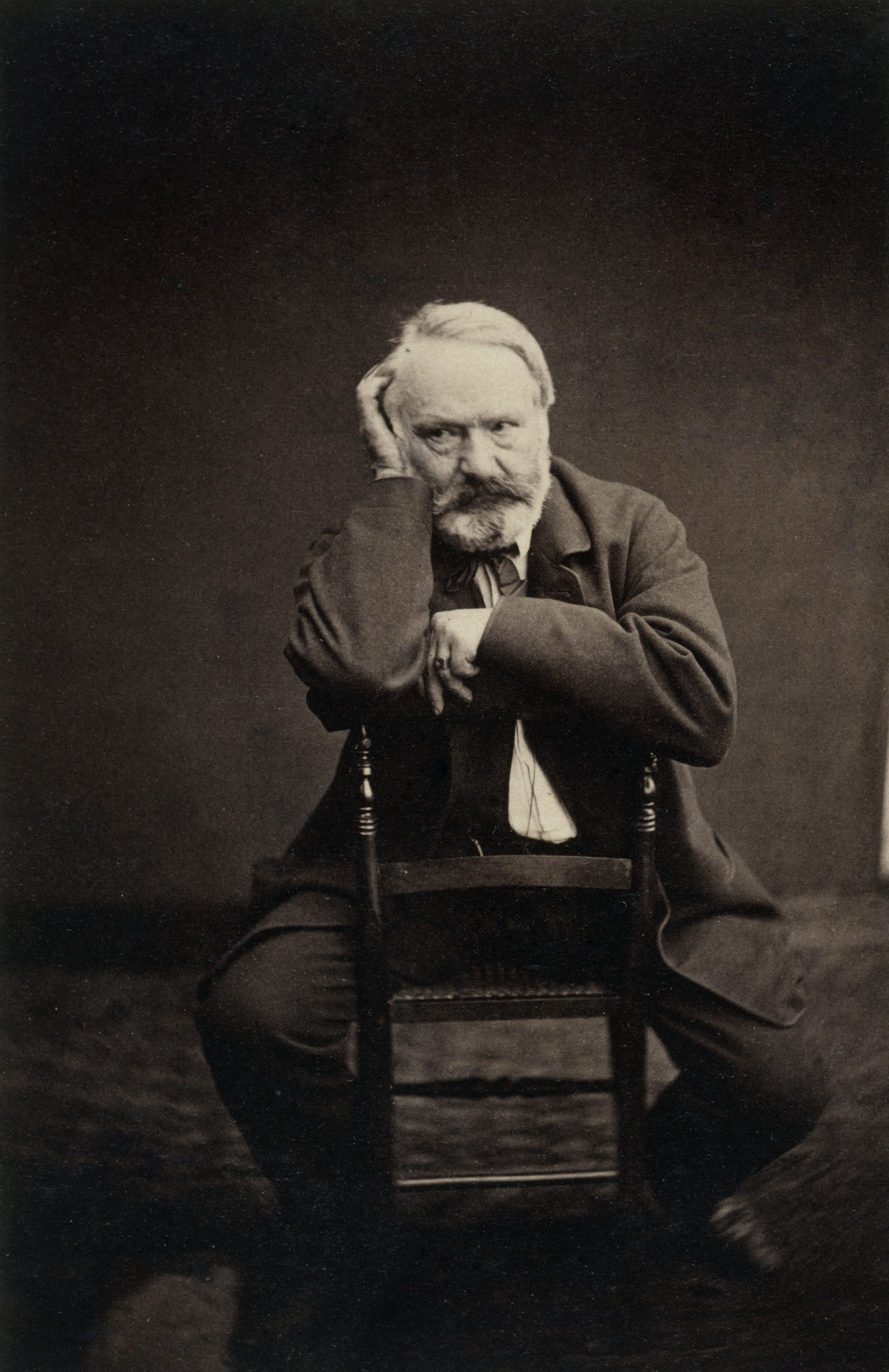 Portrait photograph of Victor Hugo